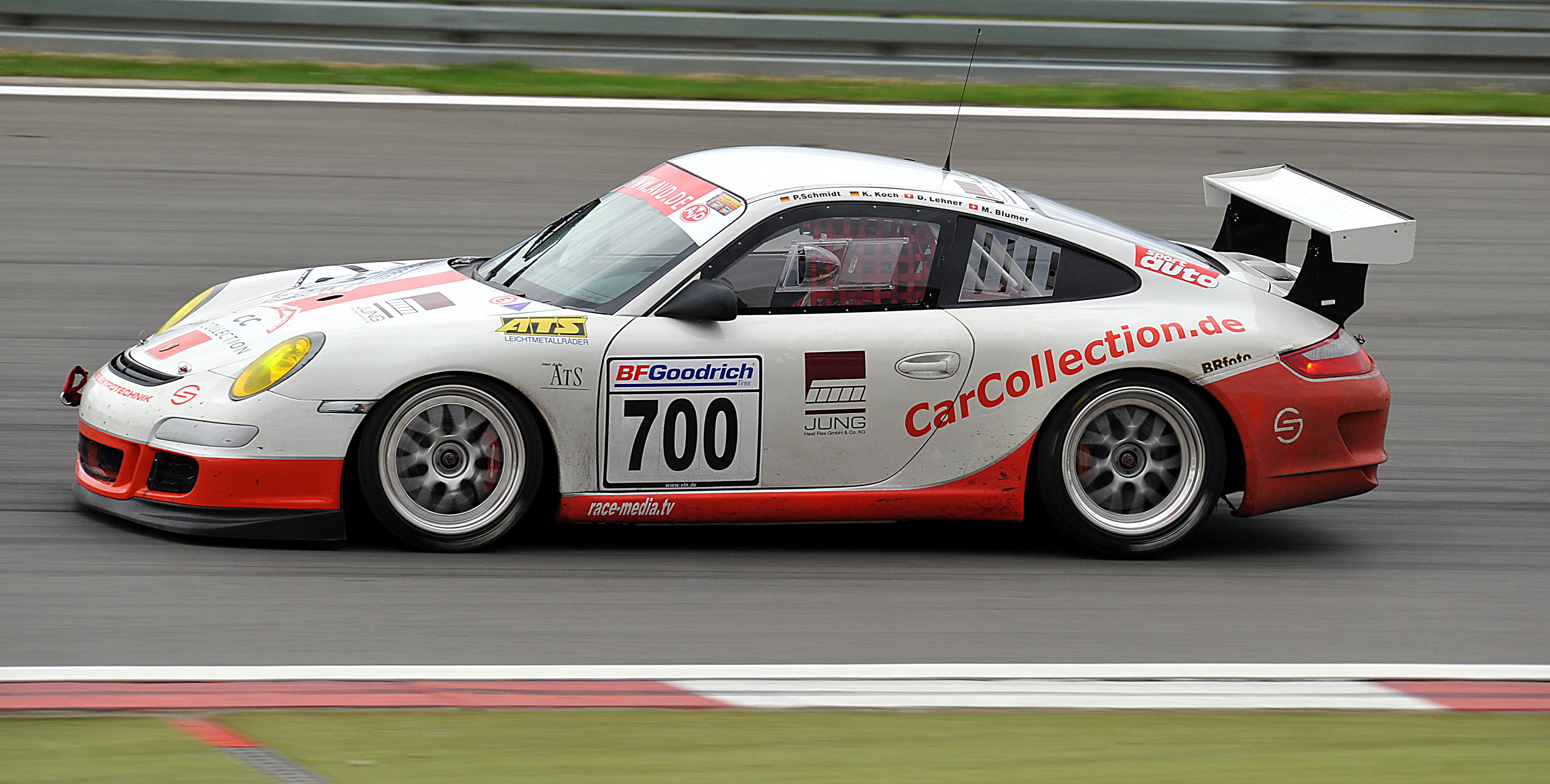 Porsche 997 GT3 Cup of the Car Collection Motorsport team during the "6h ADAC Ruhr-Pokal-Rennen" tournament of the "BF Goodrich Langstreckenmeisterschaft 2009" series on Nürburgring race course.